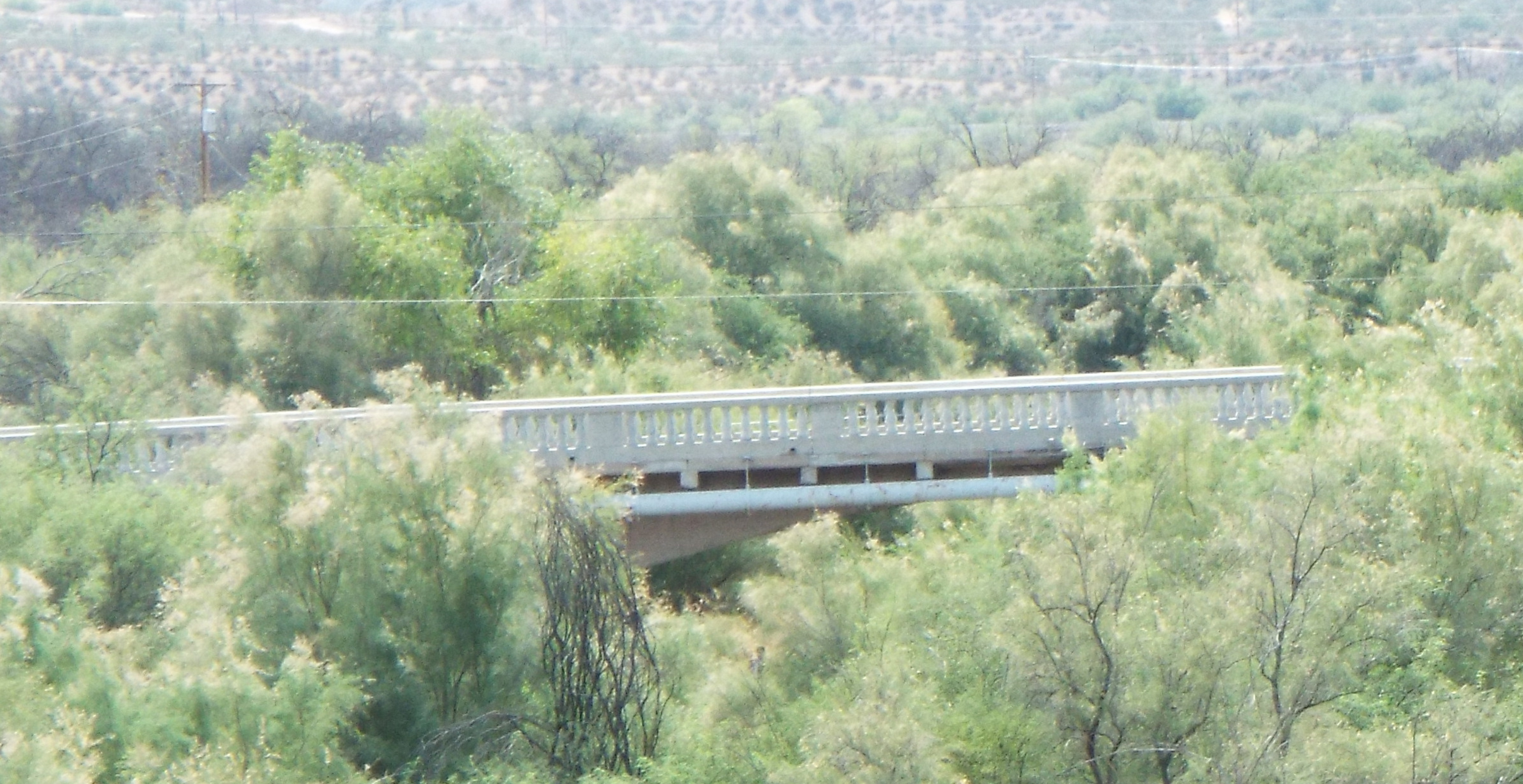 The Winkelman Luten Bridge built in 1916 in Winkelman, Arizona